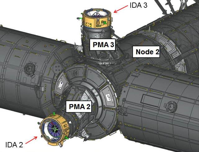 Expedition 42 U.S. Spacewalk Briefing Graphics for Tomas Gonzalez-Torres, Lead Expedition 42 Flight Director.